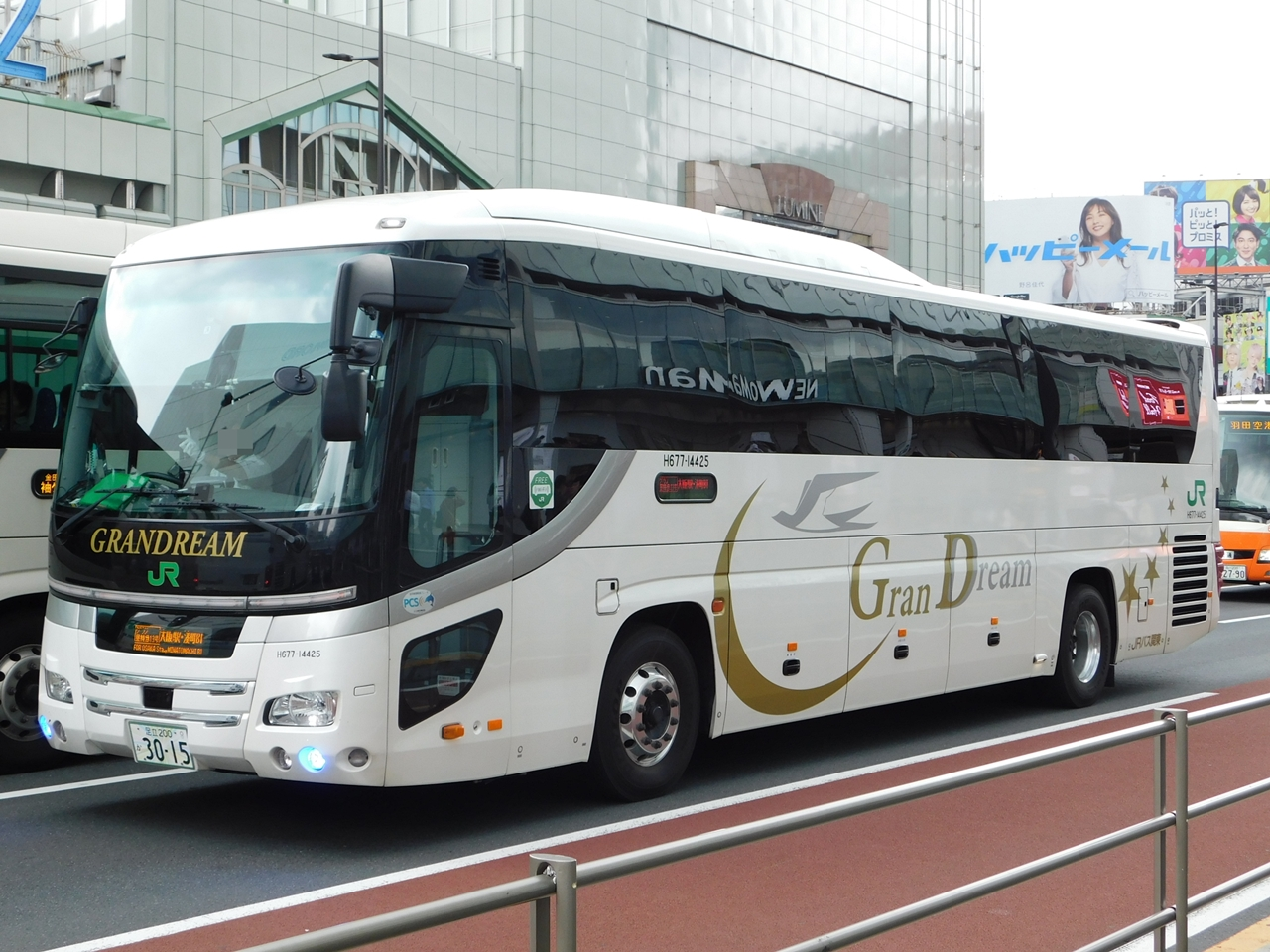 JR bus Kanto Hino S'elega (QRG-RU1ESBA,for GRANDREAM)highwaybus "GRAN hirutokkyu-gou"(Tokyo-Osaka)